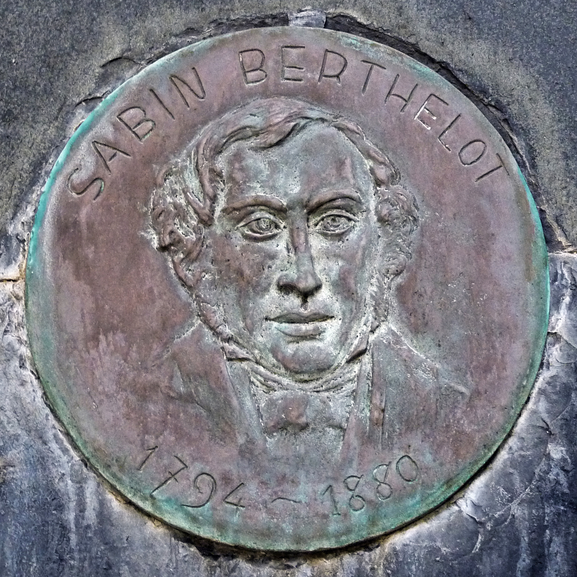 Plaque of Sabin Berthelot in the Jardín Botánico Canario Viera y Clavijo.